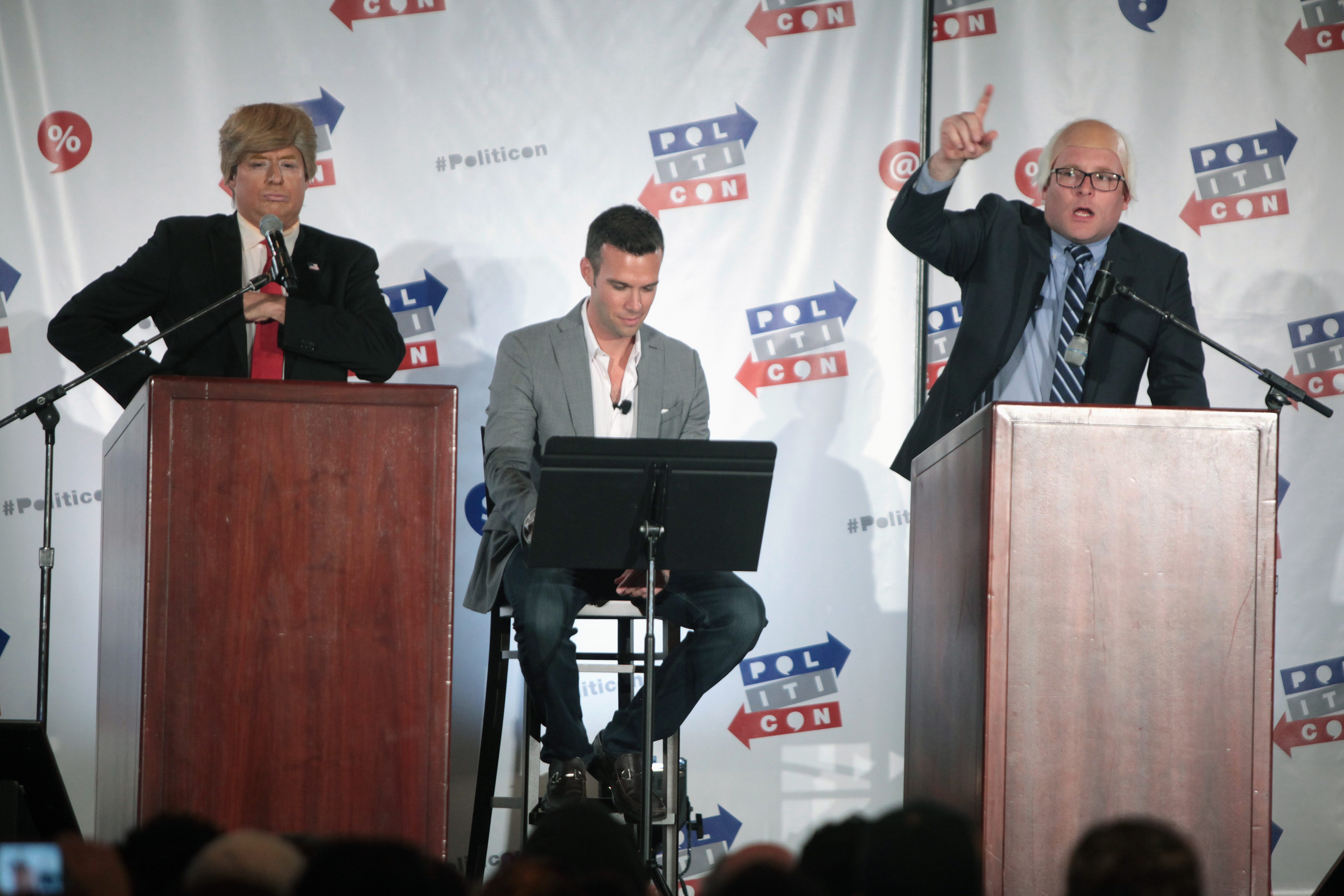 Anthony Atamanuik as Donald Trump, Jon Favreau and James Adomian as Bernie Sanders speaking at the 2016 Politicon at the Pasadena Convention Center in Pasadena, California.